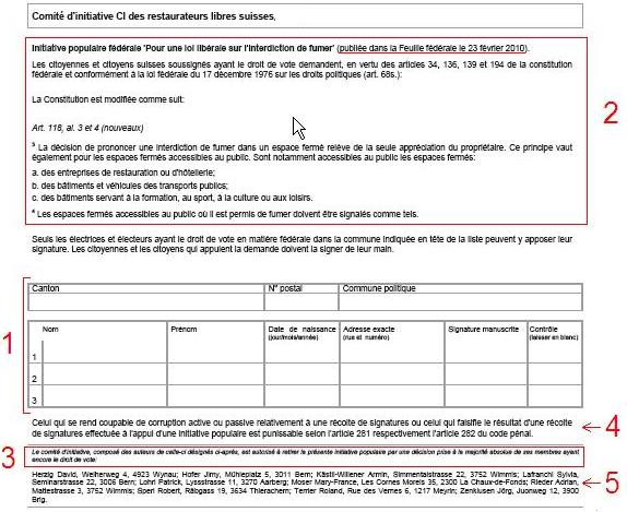 Sample of a signature form for a Swiss popular initiative, showing all mandatory items and parts : Swiss canton and commune of the signing citizen Title and full text of the initiative, including the publication's date in the Feuille fédérale (underligned) Initiative's retirement mention, mandatory as per the law Mention of articles 281 and 282 of Swiss penal code Name and adress of initiative's authors